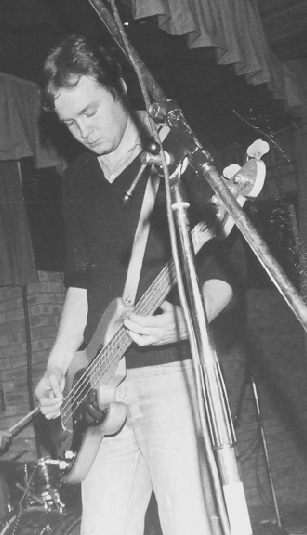 Steve Hanley of The Fall c.1980 by Dawkeye